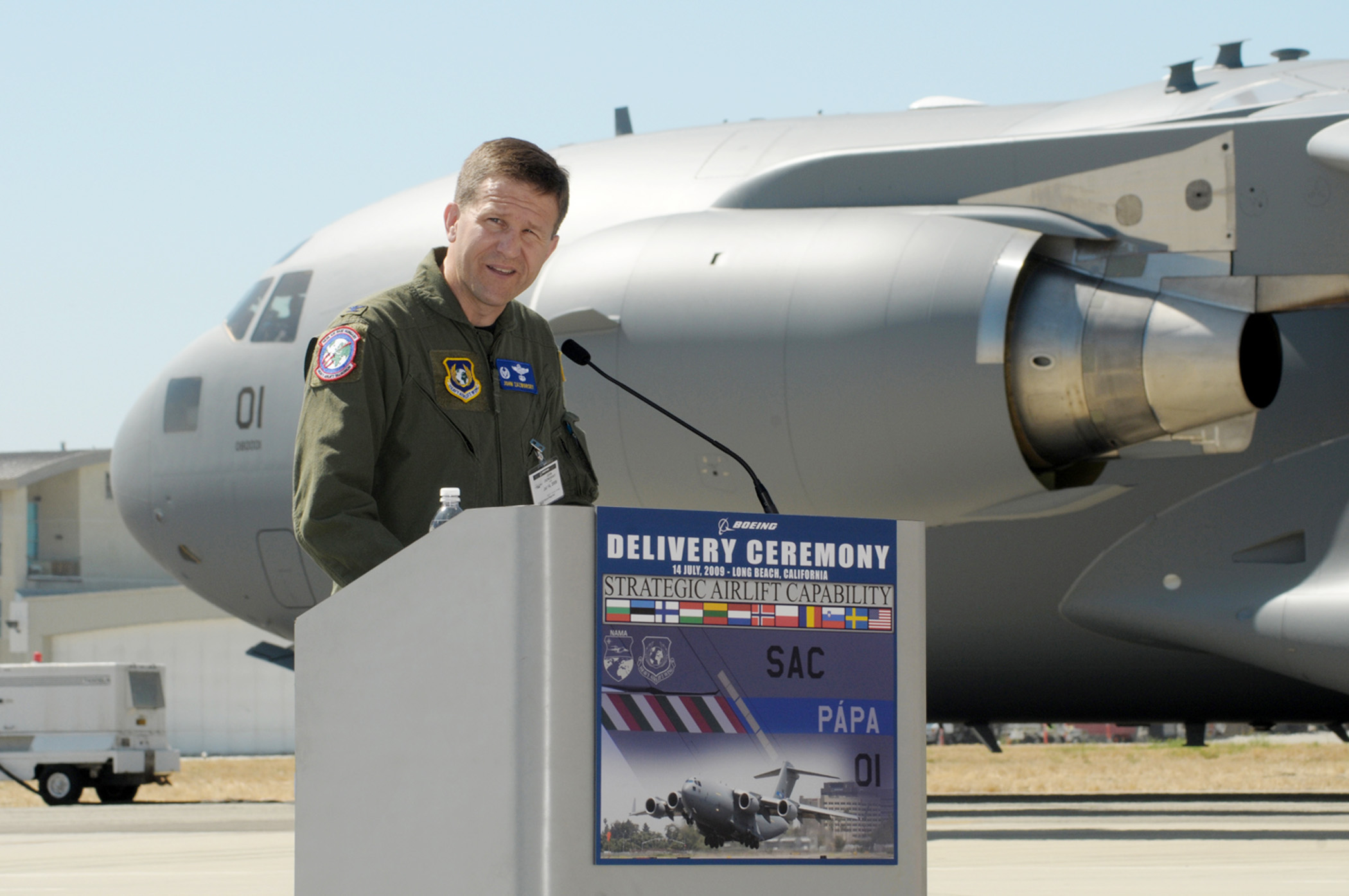 Col. John Zazworsky addresses the crowd after officially receiving the first of three C-17 Globemaster IIIs to be acquired by the 12-nation Strategic Airlift Capability Program July 14 at Long Beach, Calif. The colonel commands the program's multinational, operational-level unit, the Heavy Airlift Wing, which includes personnel from NATO member nations Bulgaria, Estonia, Hungary, Lithuania, the Netherlands, Norway, Poland, Romania, Slovenia and the United States, as well as from Partnership for Peace nations Finland and Sweden.